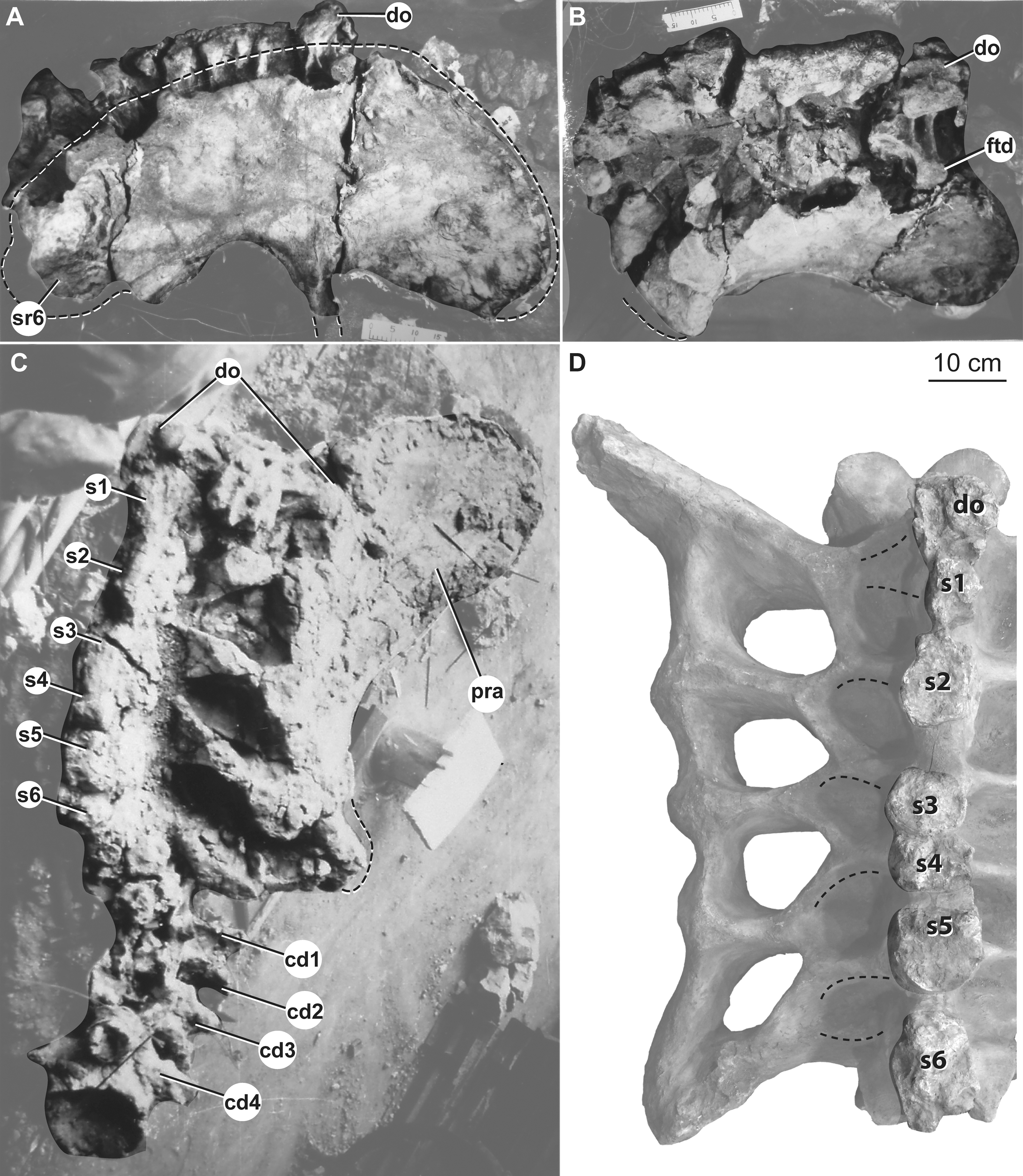 Holotypic sacrum Huabeisaurus allocotus (HBV-20001) from the Upper Cretaceous of Shanxi, China. In (A) right lateral, (B) right dorsolateral, (C) dorsal, and (D) dorsal views. (A–C) depict the sacrum during original preparation; (D) depicts the sacrum in 2012. Abbreviations: cd1–4, caudal vertebrae 1–4; do, dorsal vertebra; ftd, flat-topped diapophysis; pra, preacetabular process; s1–6, sacral vertebral neural spines 1–6. Dashed lines in (A–C) indicate broken bone margins; dashed lines in D indicate general locations of the last dorsal rib and the six sacral ribs.